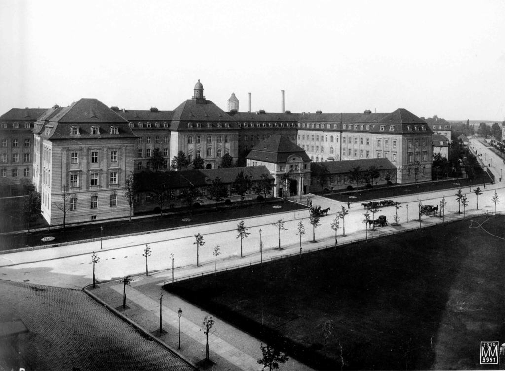 Berlin-Wedding Augustenburger Platz 1910 Eingang zum Rudolf-Virchow-Krankenhaus